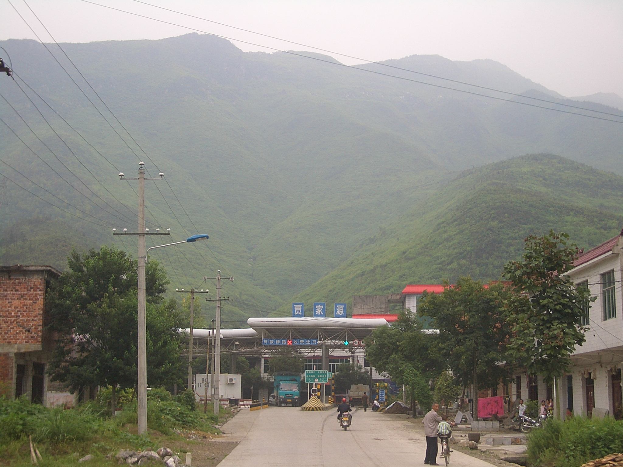 The junction of national highways G106 and G316 near the eastern tip of Tongshan County (Hubei), near the Jiangxi border. The junction is named Jiajiayuan (贾家源), i.e. "Jia family's spring", after the eponymous nearby village. (It is common for village names in this area to end in yuan 源). The photo is taken looking east, i.e. coming from Tongyang (Tongshan County's county seat). The roads from here will go to the left (north) toward Yangxin/Huangshi (and eventually, Ezhou and Wuhan) (that's G106/316 combined), and right (south) toward Nanchang (that's G316). Blue sign on top: "贾家源" ("Jiajiayuan", the location name). Blue sign below: “贷款修路 / 收费还贷” is a slogan (See e.g. “贷款修路,收费还贷”政策思考, "Thoughts on the policy 'Lending for the road repair, and repaying the loan'").